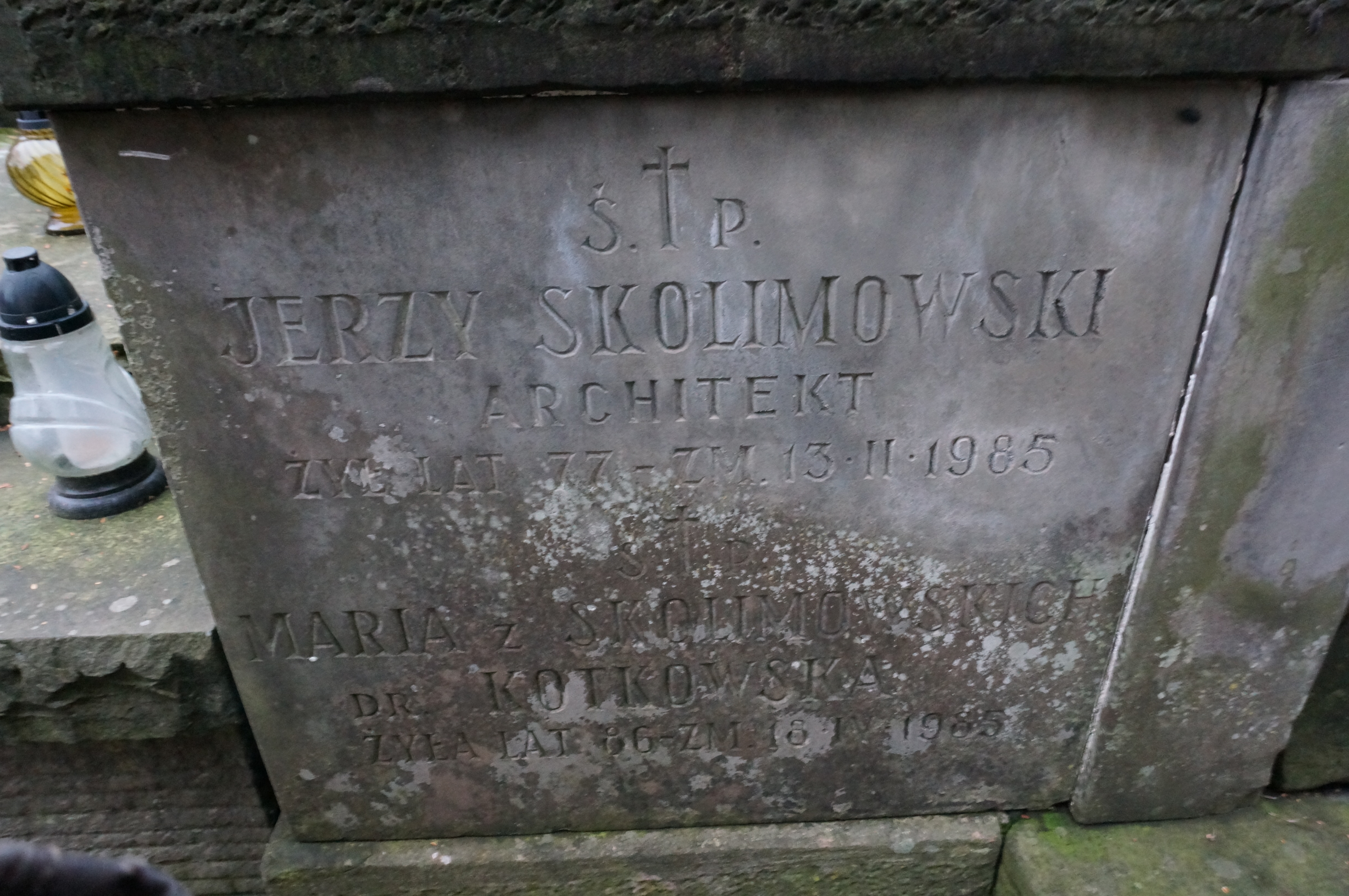 Inscription on the grave of Jerzy Skolimowski (section R, row 4, grave 7-8)